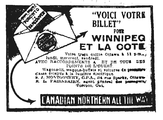 French newspaper ad for travel along the Canadian Northern Railway.